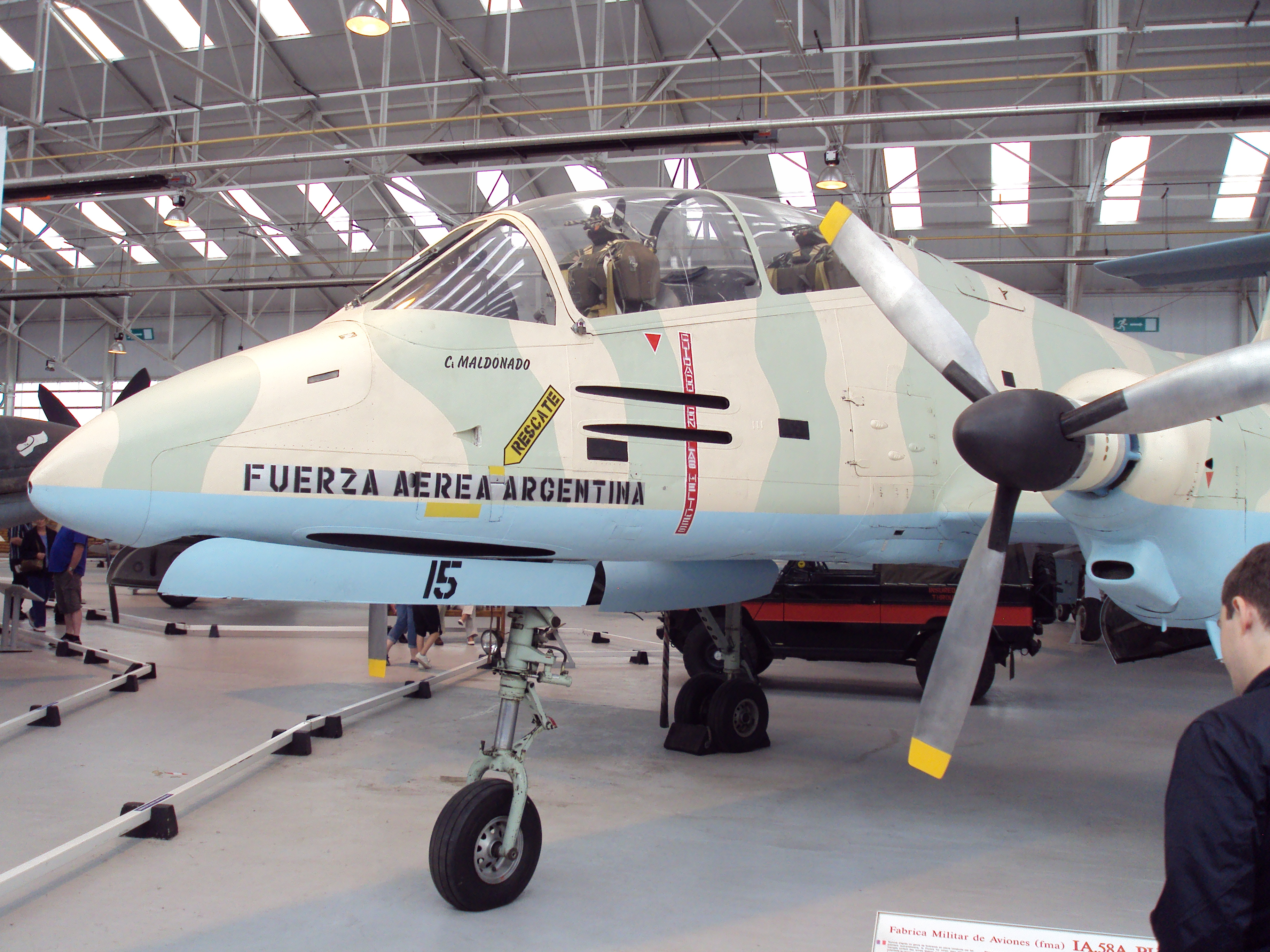 Photo of an FMA IA 58 Pucará aircraft of the Argentine Air Force, taken at the RAF Museum Cosford, Shropshire, England.